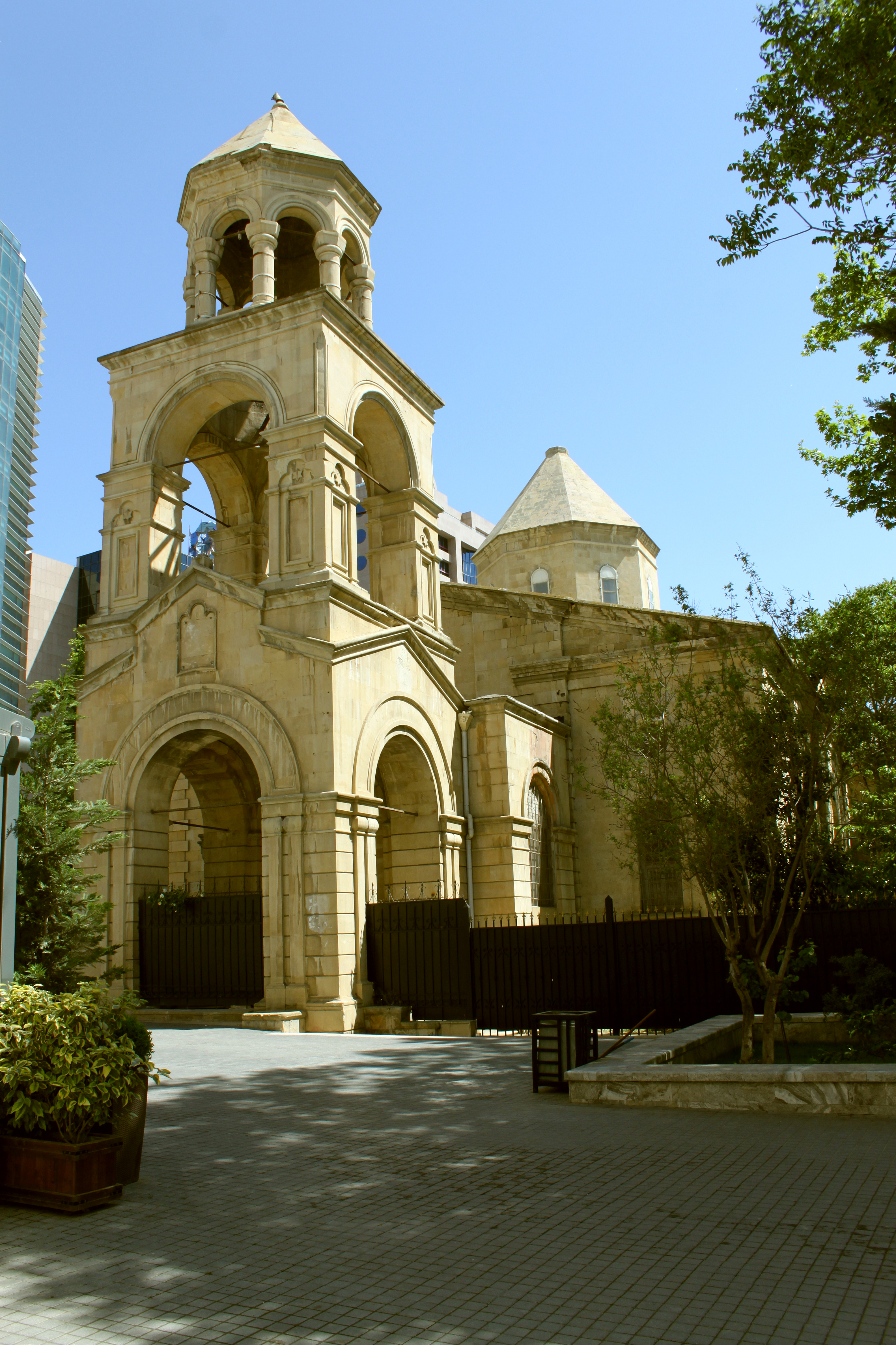 Armenian church of Saint Gregory the Illuminator in Baku